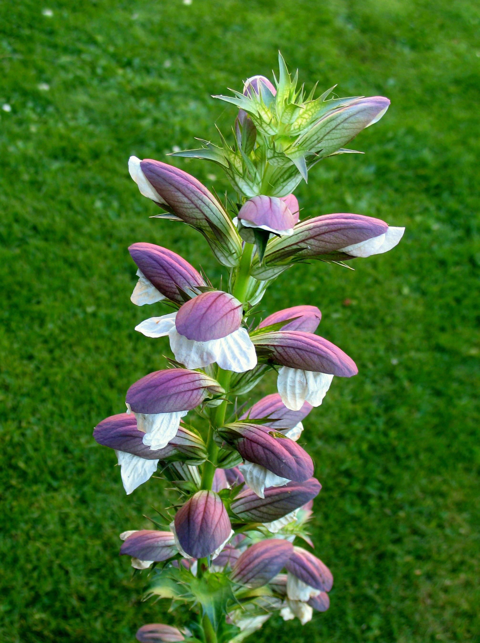 Acanthus mollis, fam. Acanthaceae